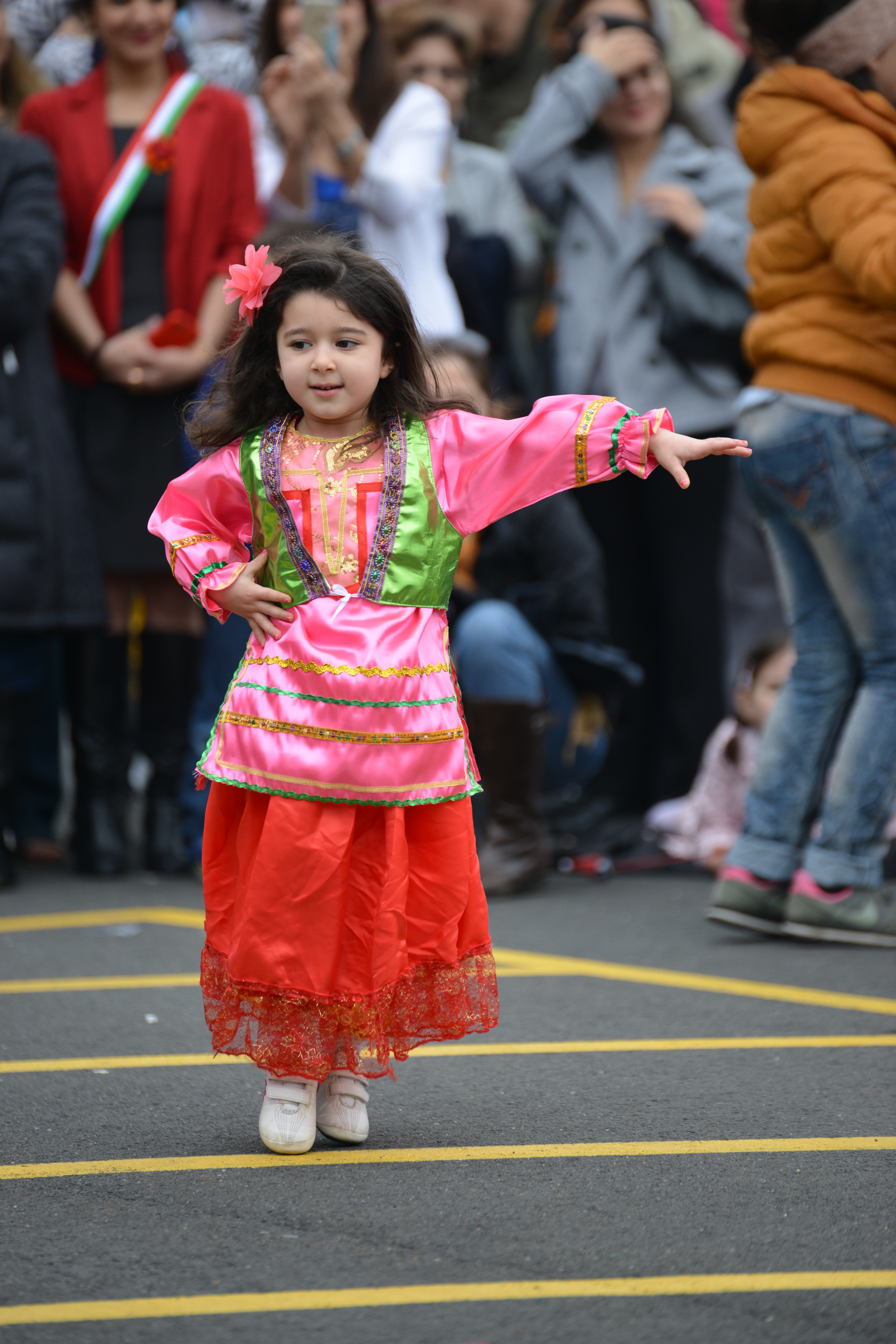 Nowruz Festival DC 2016